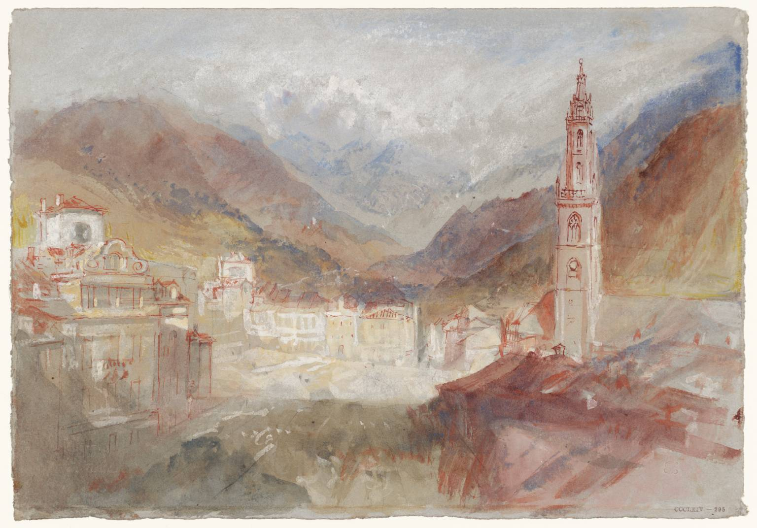 Bozen and the Dolomites 1840 Joseph Mallord William Turner 1775-1851 Accepted by the nation as part of the Turner Bequest 1856